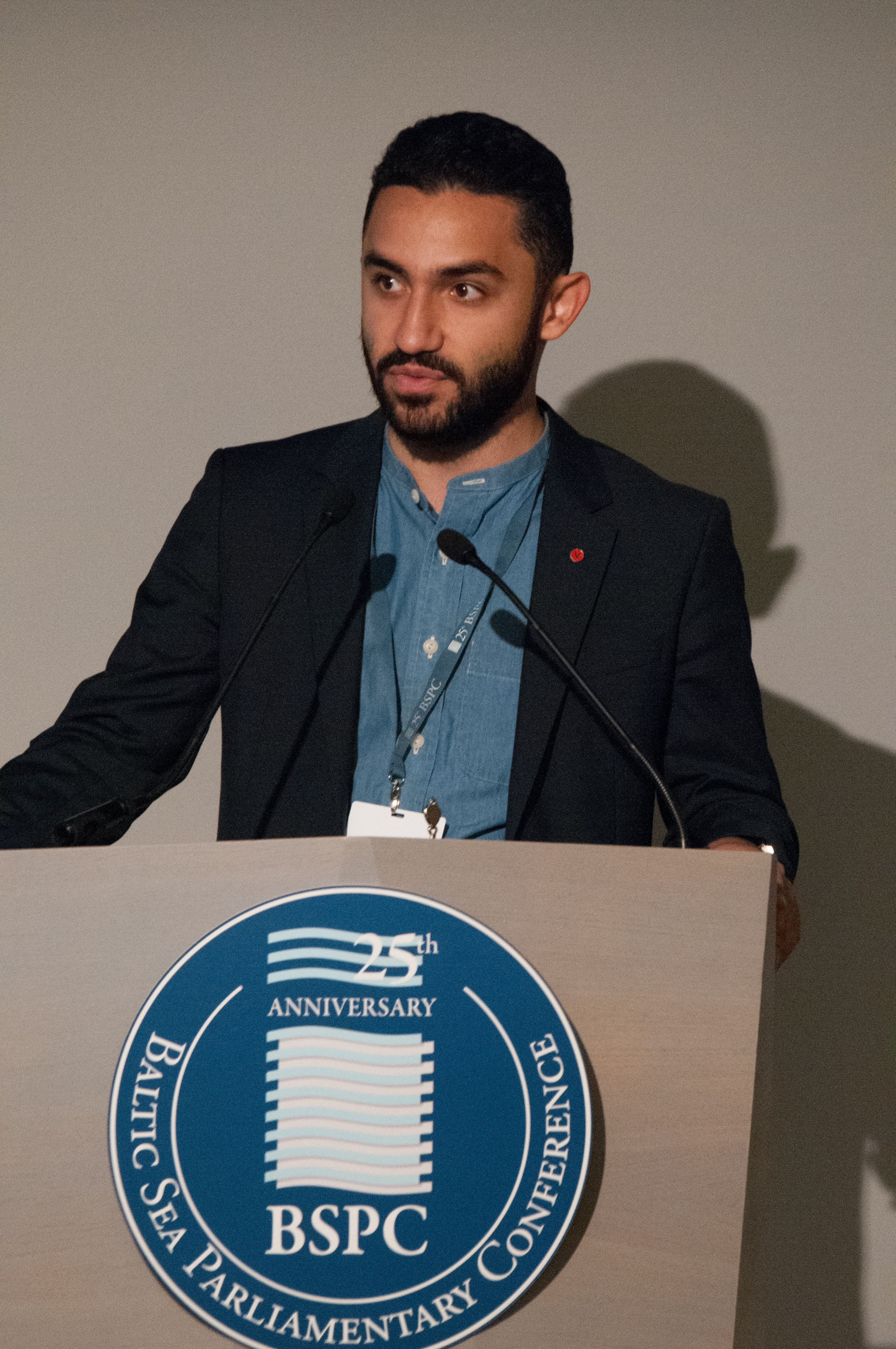 25. Baltic Sea Parliamentary Conference vom 28.-30. August 2016 in Riga. THIRD SESSION: Daniel Riazat, Member of the Parliament